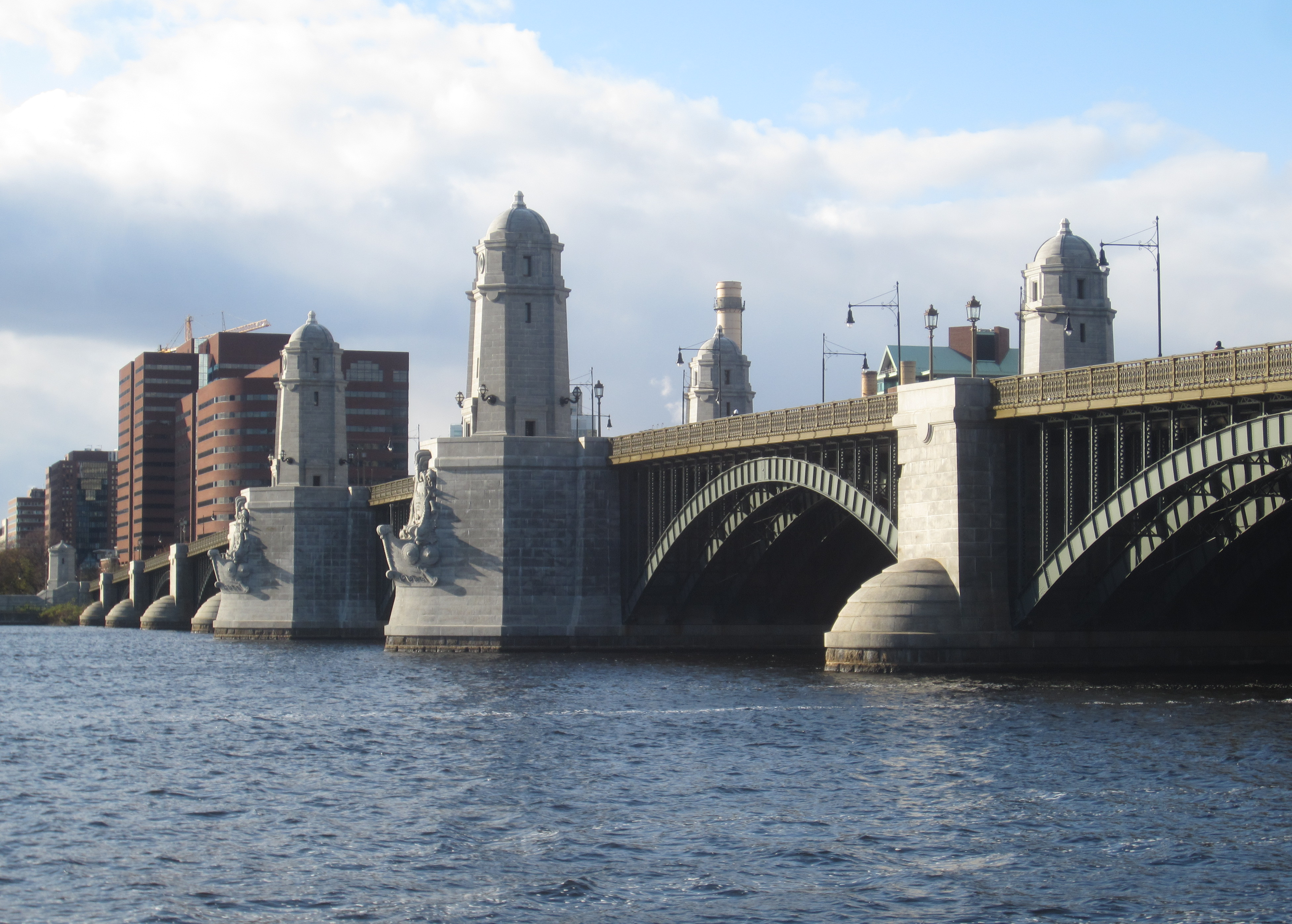 Longfellow Bridge viewed from the Boston side in November 2019